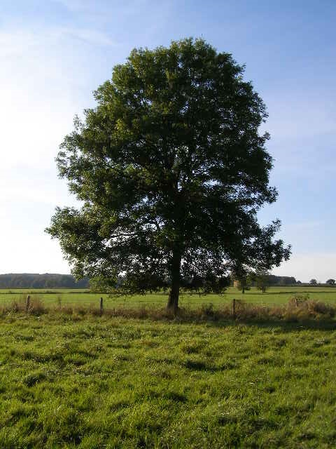 Ash Tree This rather isolated ash tree has lost few leaves this autumn and presents a formidable barrier to strong winds.